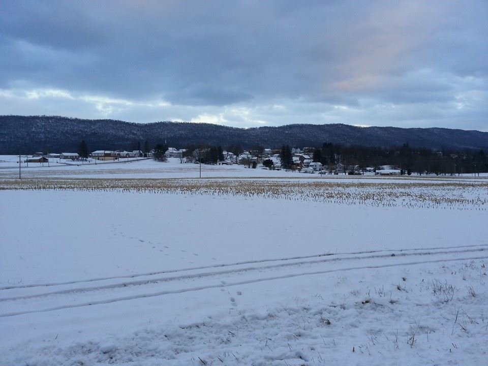 View of Fannettsburg, PA from north of town